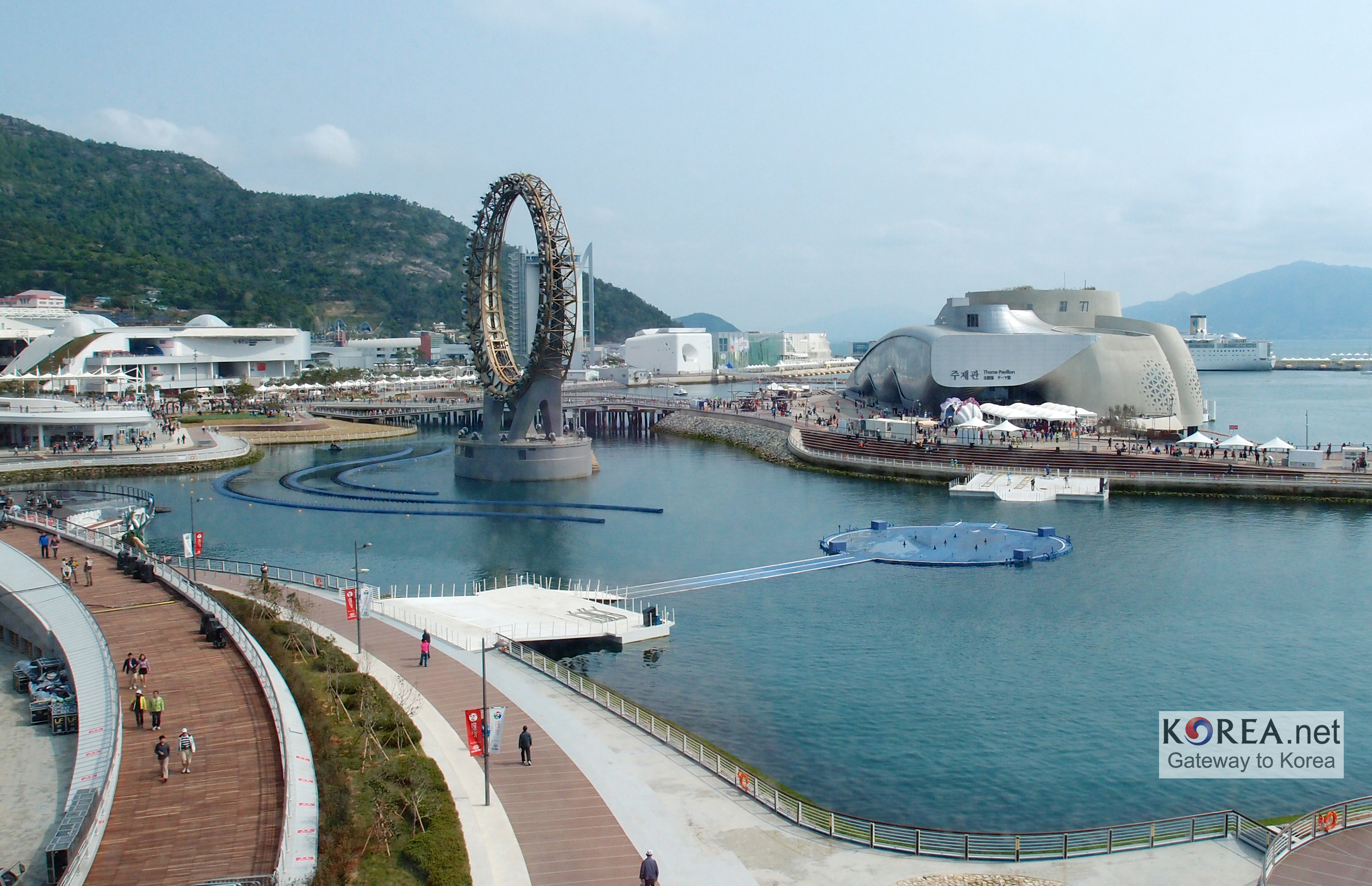 2012 해외문화홍보원 글로벌 기자단 여수엑스포 제1차 팸투어 (2012 KOCIS WKB Fam-Tour for Yeosu Expo) 2012년 5월 (May, 2012)